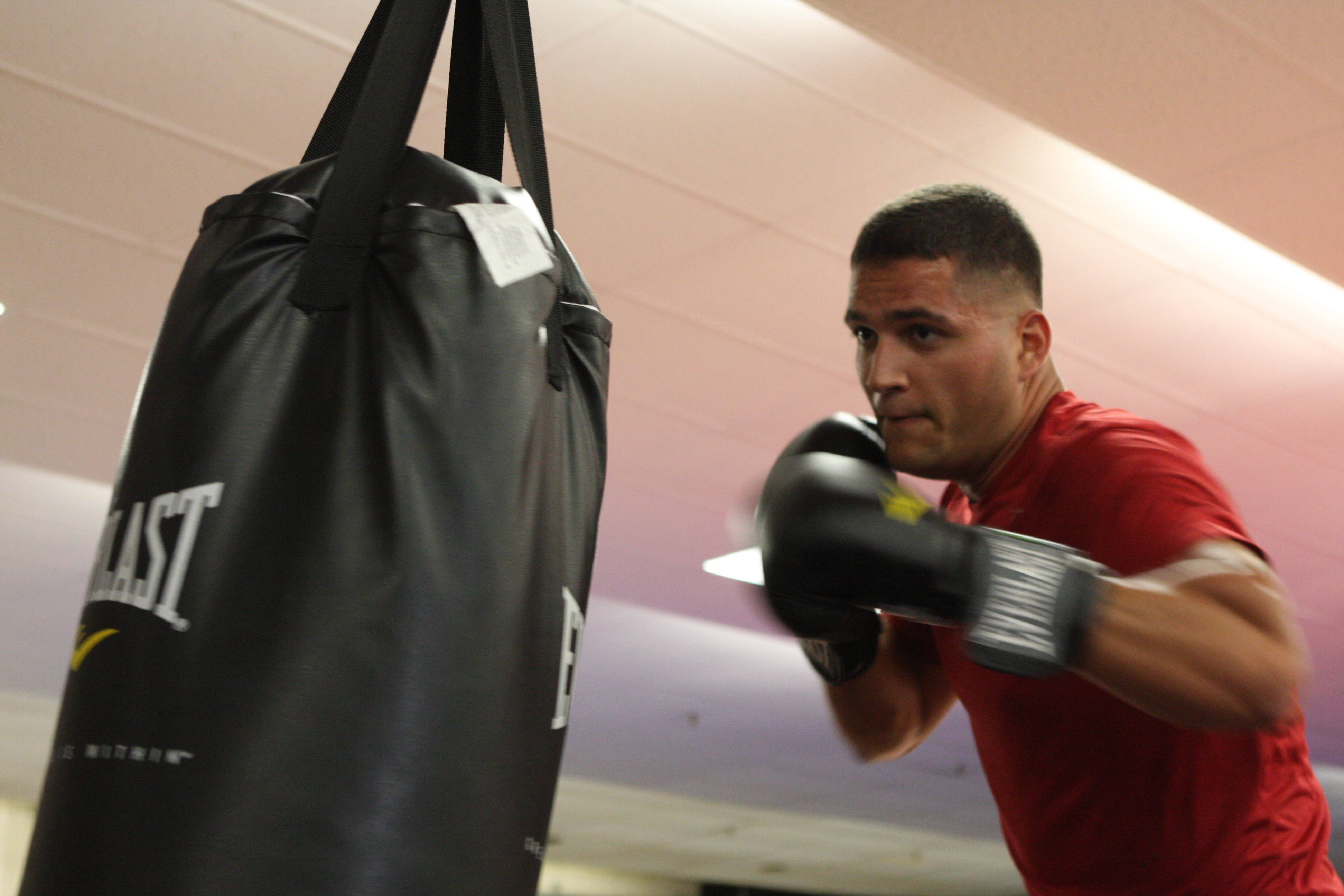 Pfc. Michel B. Ktamer, a field wireman with Marine Wing Communication Squadron 38, a Dallas native and a fighter at the Miramar Grappling Club, throws a left jab toward the heavy bag aboard Marine Corps Air Station Miramar Sept. 12. Marines attend the club to work out, improve their mixed-martial arts skills and to train for MMA competitions.